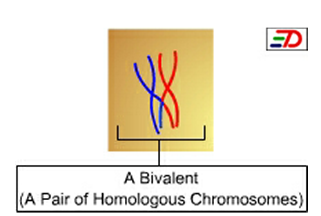 Bivalent